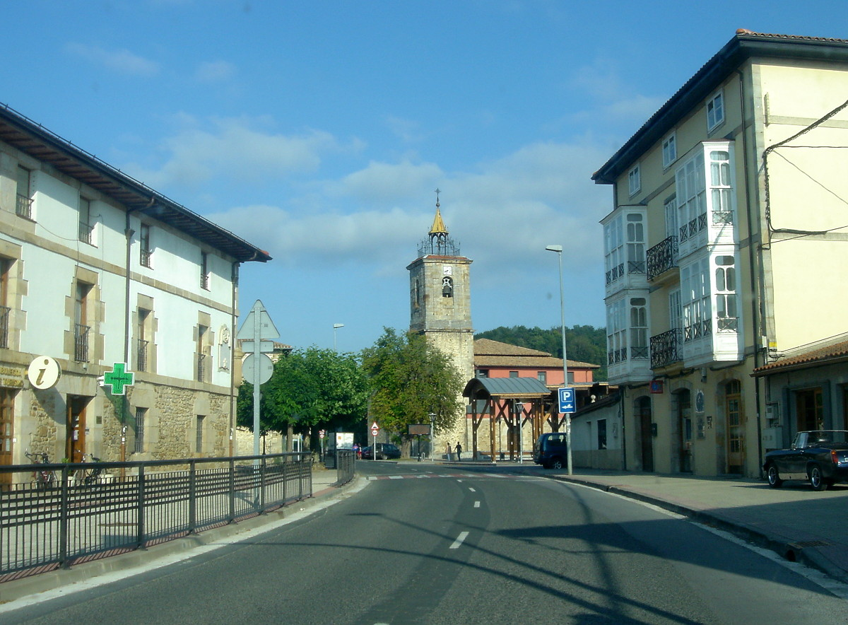 Murgia (Araba, Basque Country, Spain)